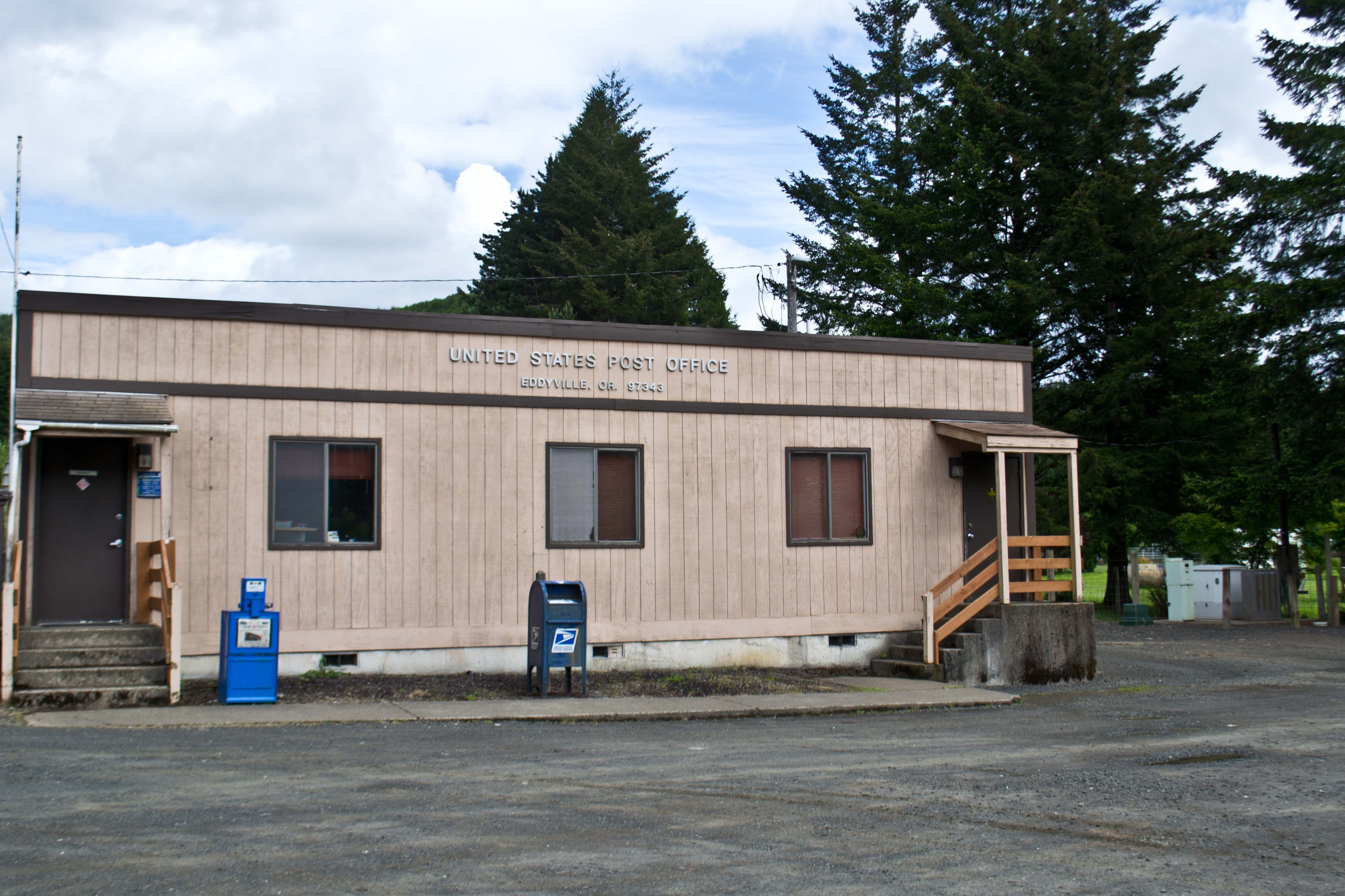 One of the few remaining structures in Eddyville